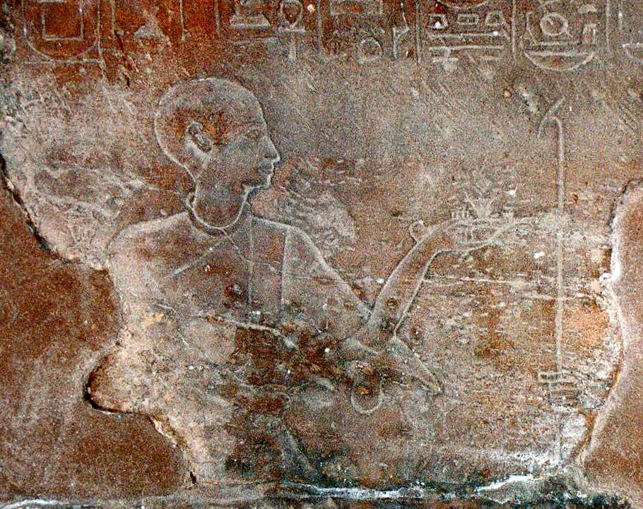 Representation of Kheperkare-Setepenamen Pinedjem I in the temple of Khonsu, Karnak.